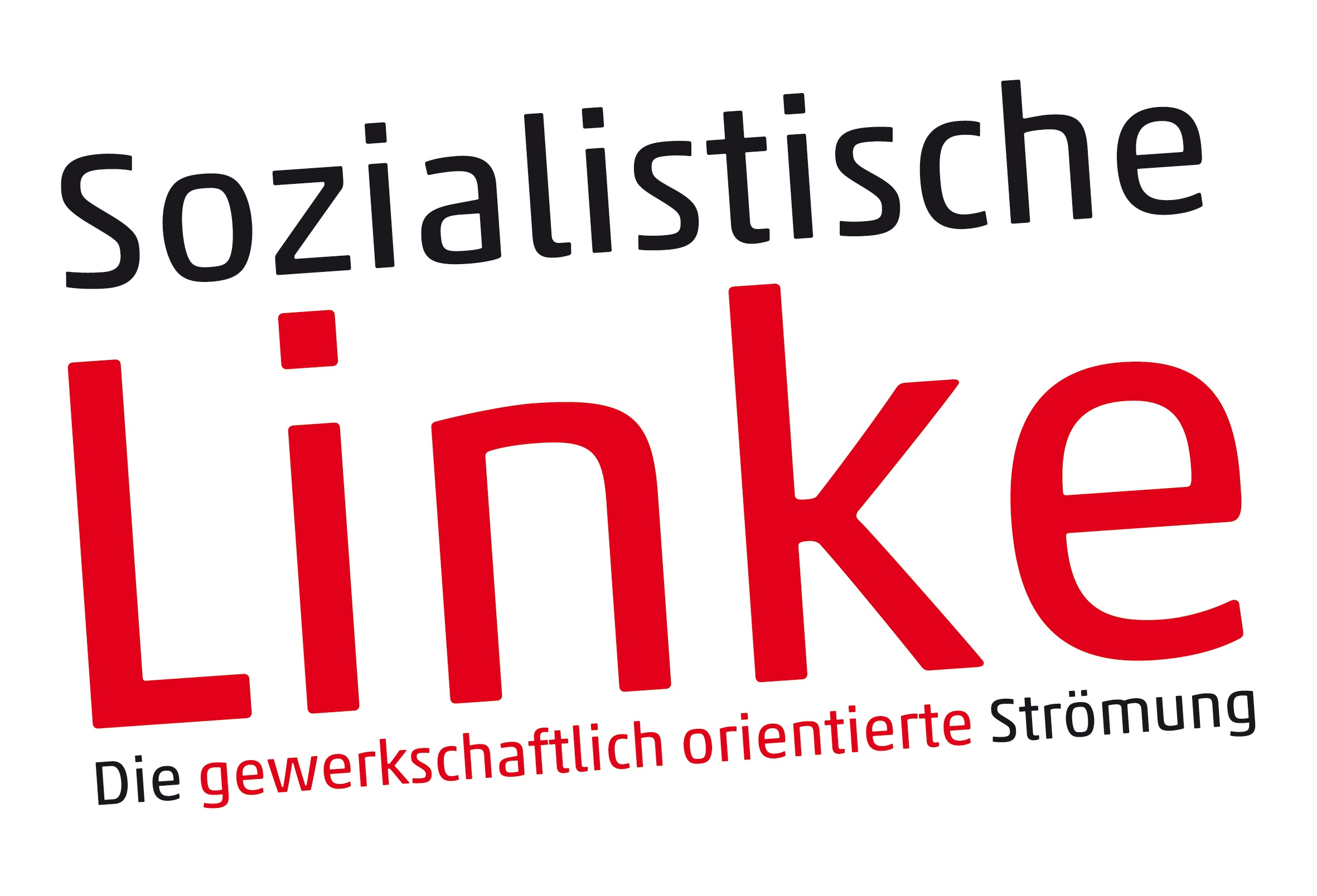 SL Logo Lang - Gewerkschaftliche Orientierung